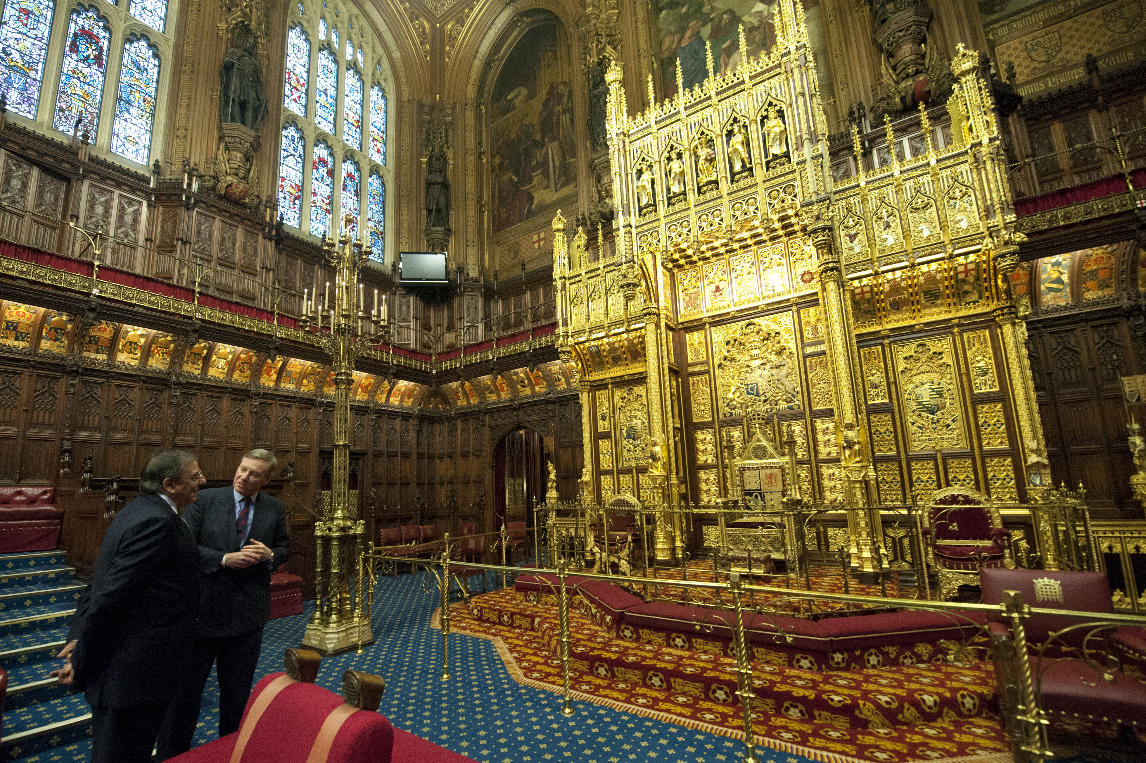 Secretary of Defense Leon E. Panetta is given a tour of the House of Lords by Minister of State for the Armed Forces of the UK, Andrew Robathan, in London, England, Jan. 18, 2013. Panetta is on a six day trip to Europe to visit with foreign counterparts and troops in the area.